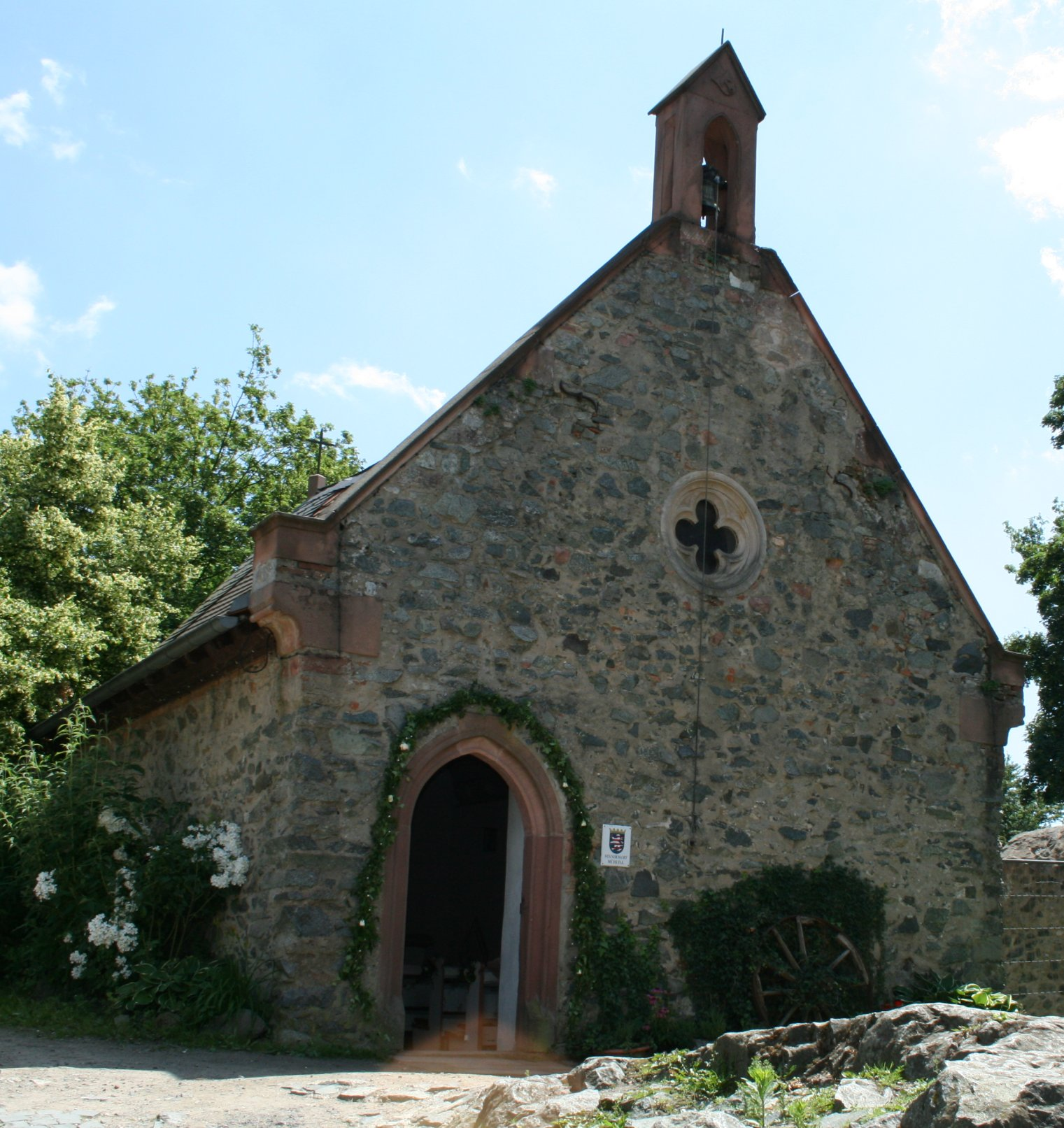 Chapel of Burg Frankenstein